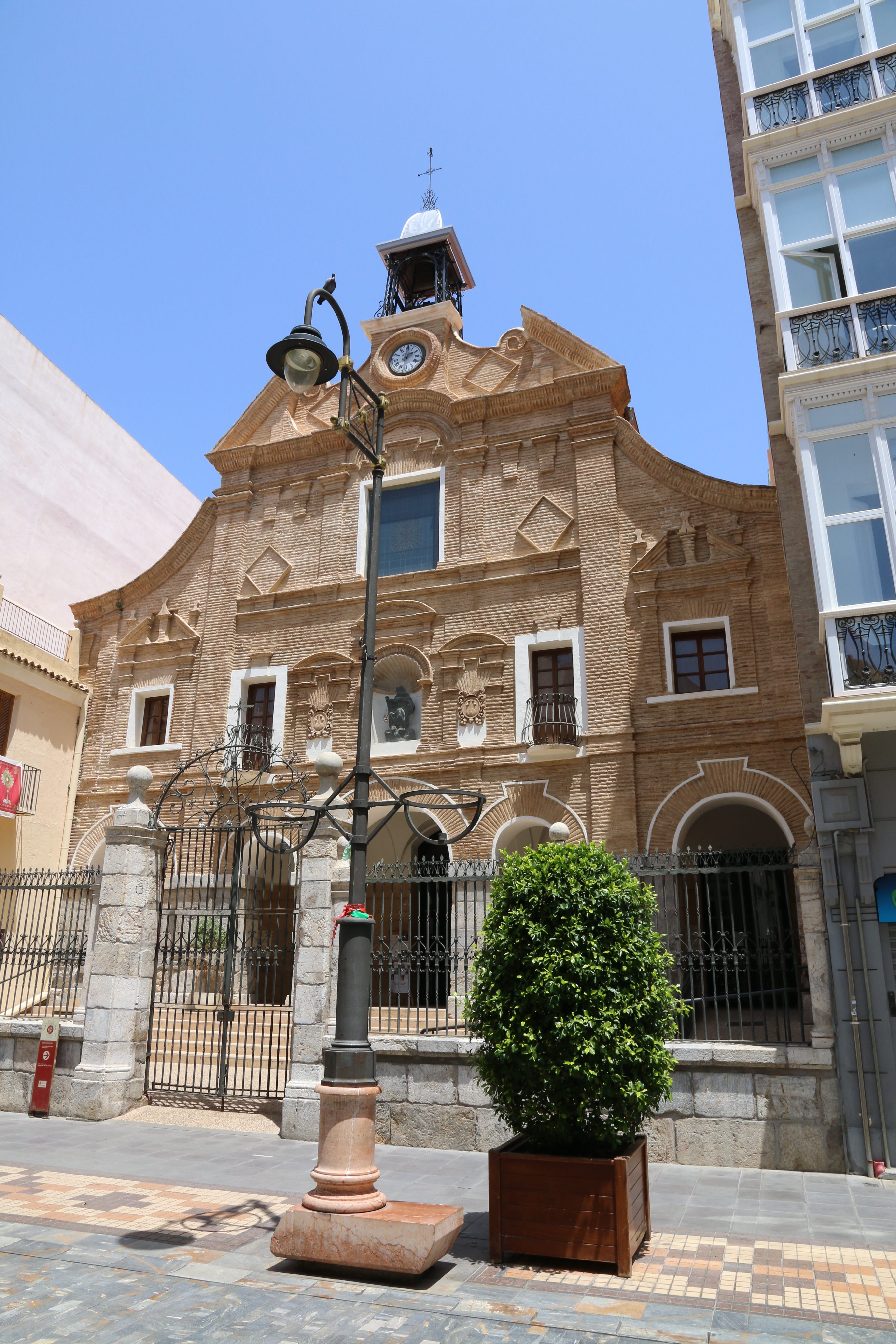 The Category:Church of El Carmen in the old town of the Spanish city of Cartagena (Region of Murcia).